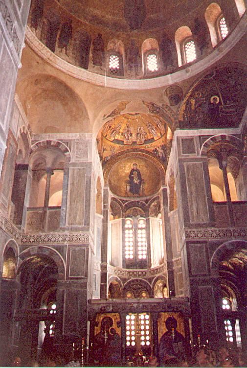 Church of Hosios Loukas (Greece), looking East toward the sancturary